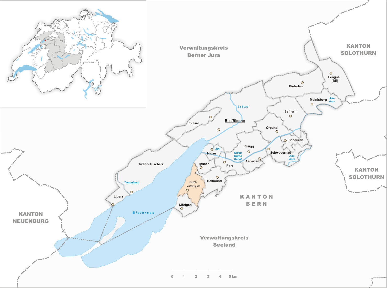 Municipality Sutz-Lattrigen